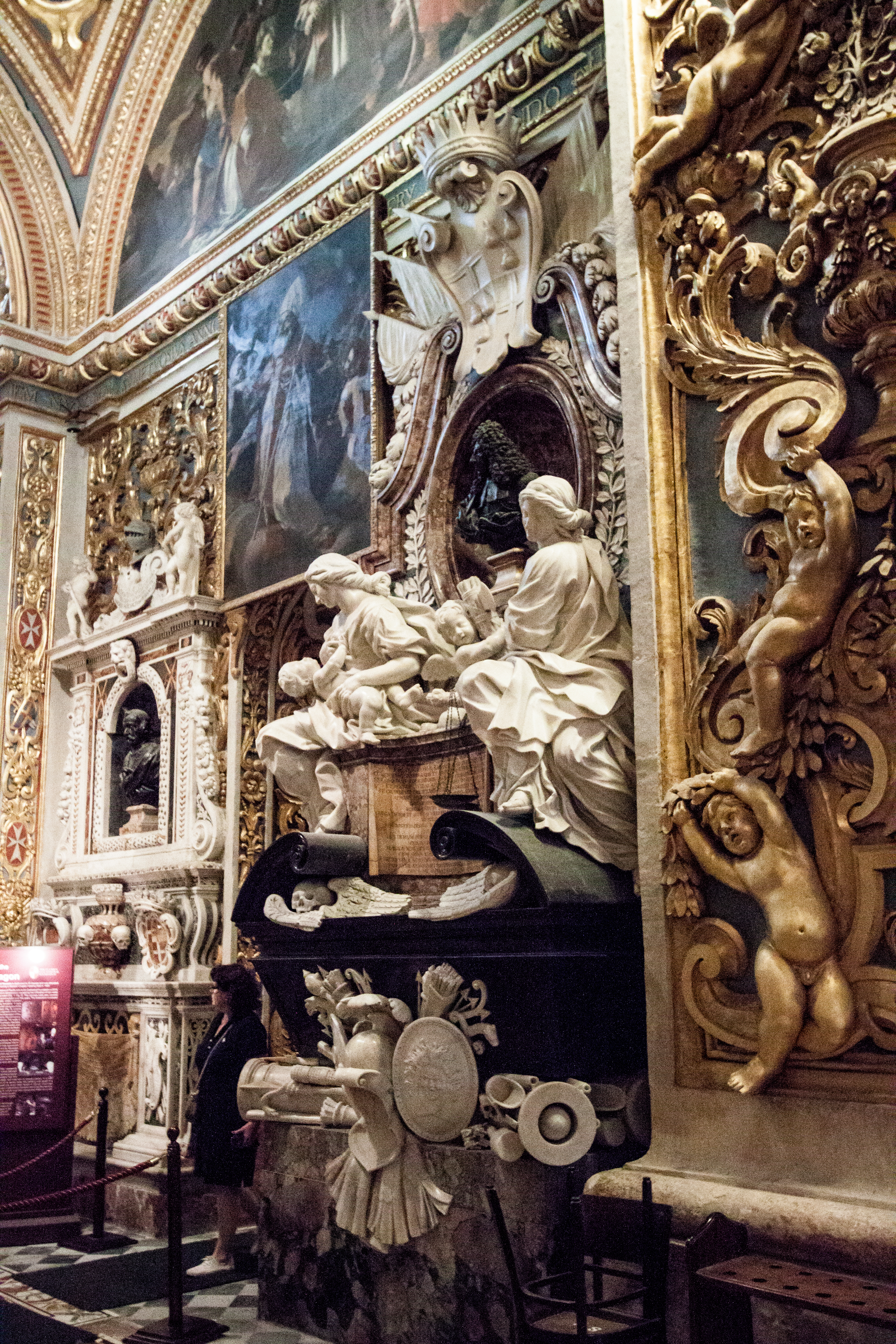 Monument to a Grand Master in the St. John's Co-Cathedral in Valletta, Malta